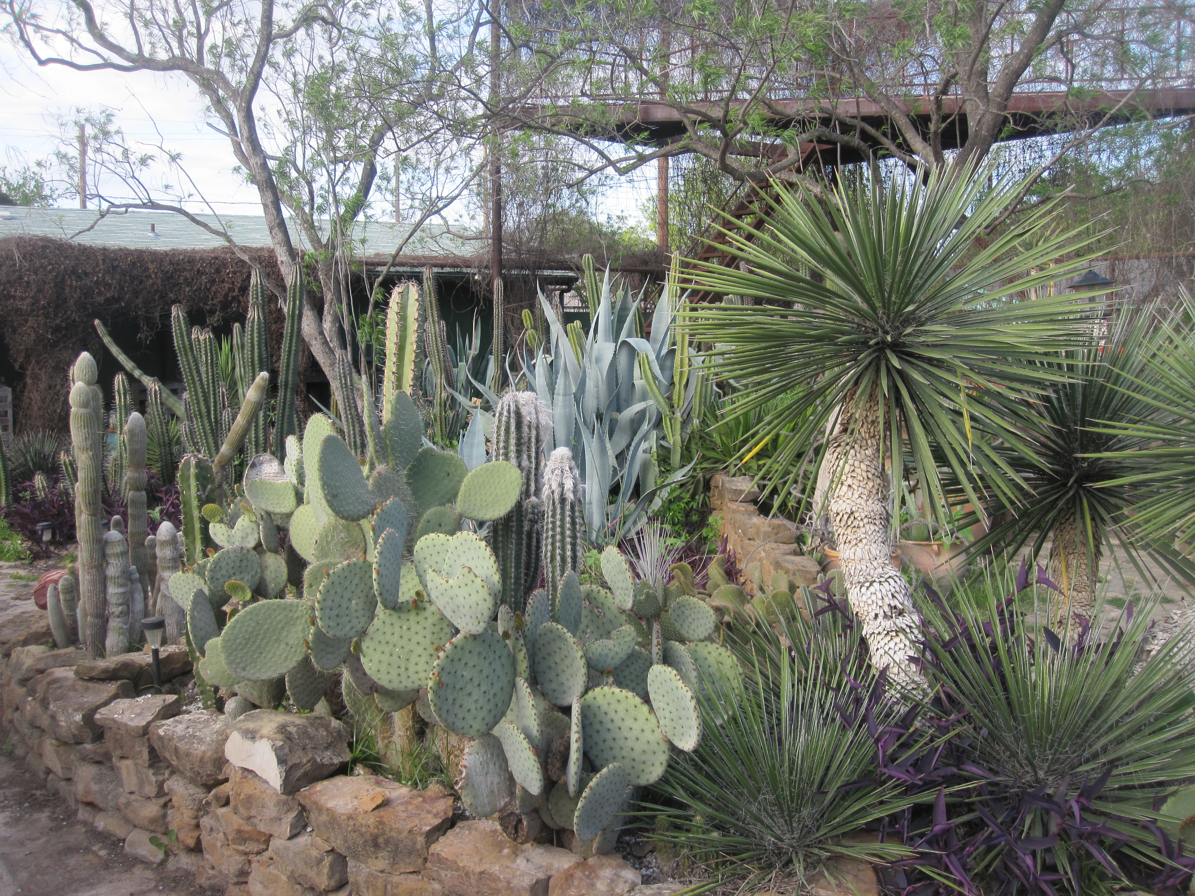 I took picture with Canon camera.